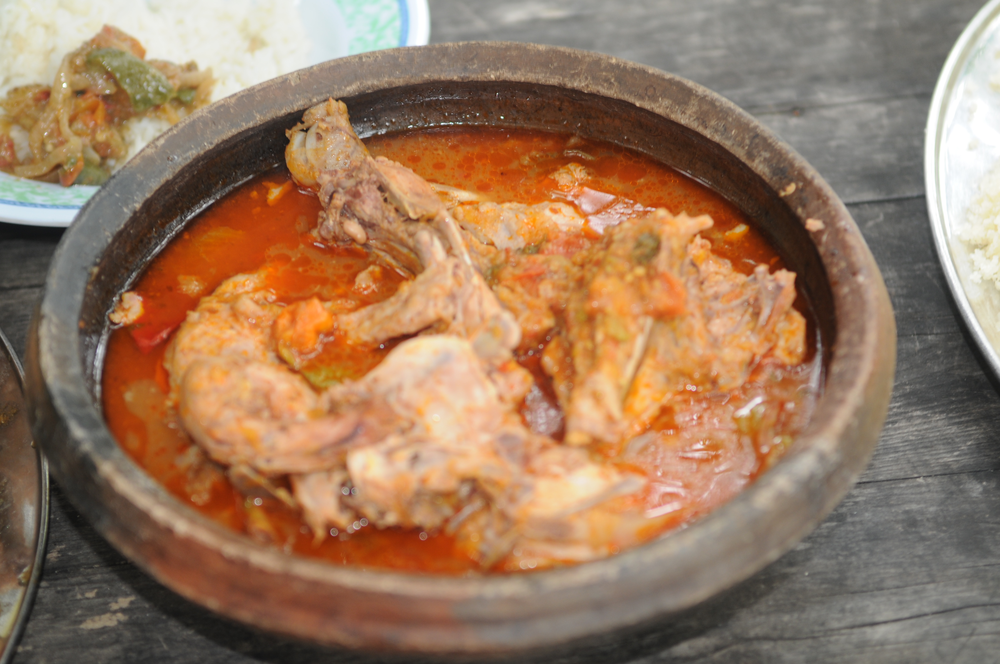 This is an image of food from Ivory Coast